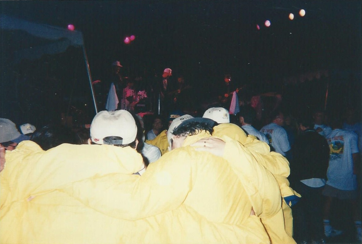 At the annual Tuesday night barbecue party and private concert given at the SCO Forum 1997 computer conference, The Kingsmen perform. The stage is located at Cowell College on the campus of the University of California, Santa Cruz. An especially boisterous group of overseas attendees to the conference in matching yellow jackets is seen in the left foreground.